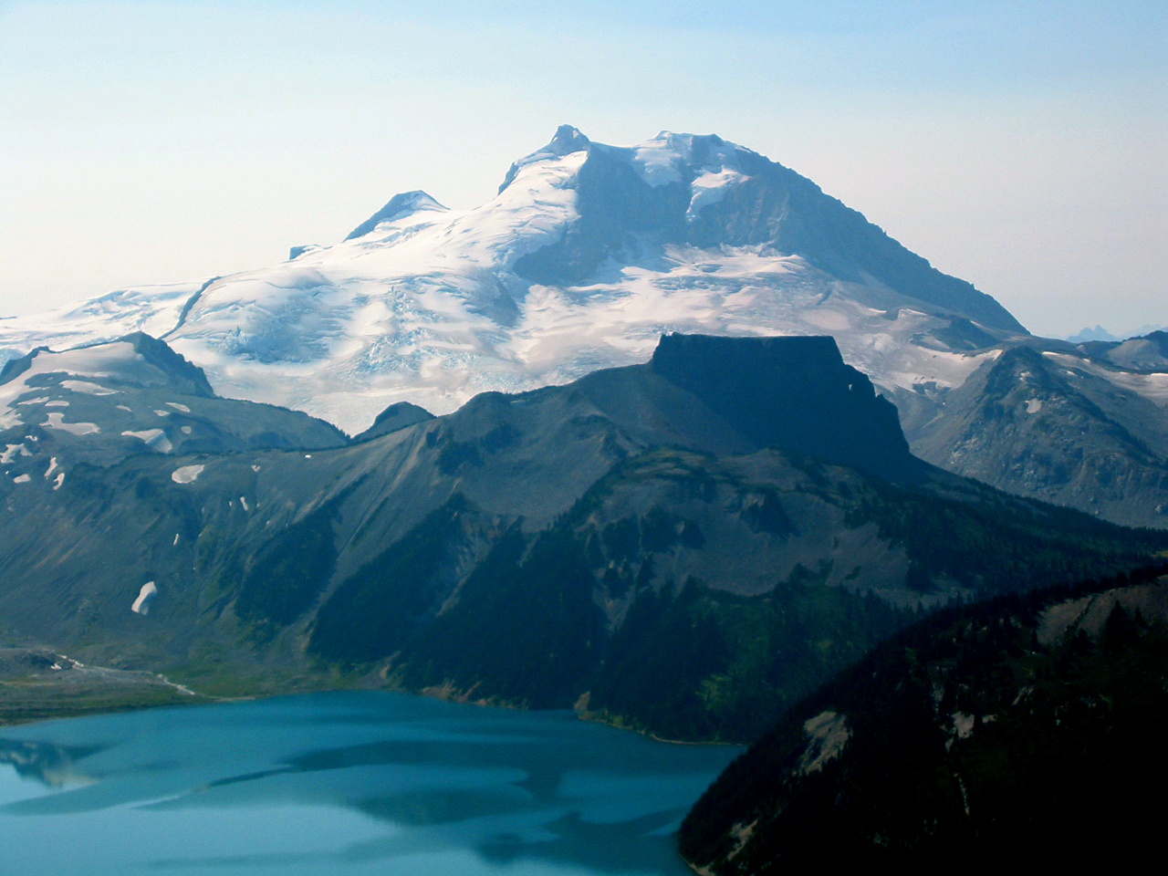 The north face of Mount Garibaldi rises above The Table and Garibaldi Lake, looking south from Panorama Ridge at 6900 ft (2100 m).